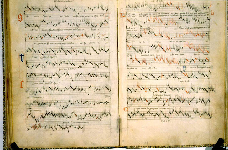 Matteo da Perugia's "Le greygnour bien" facsimile.